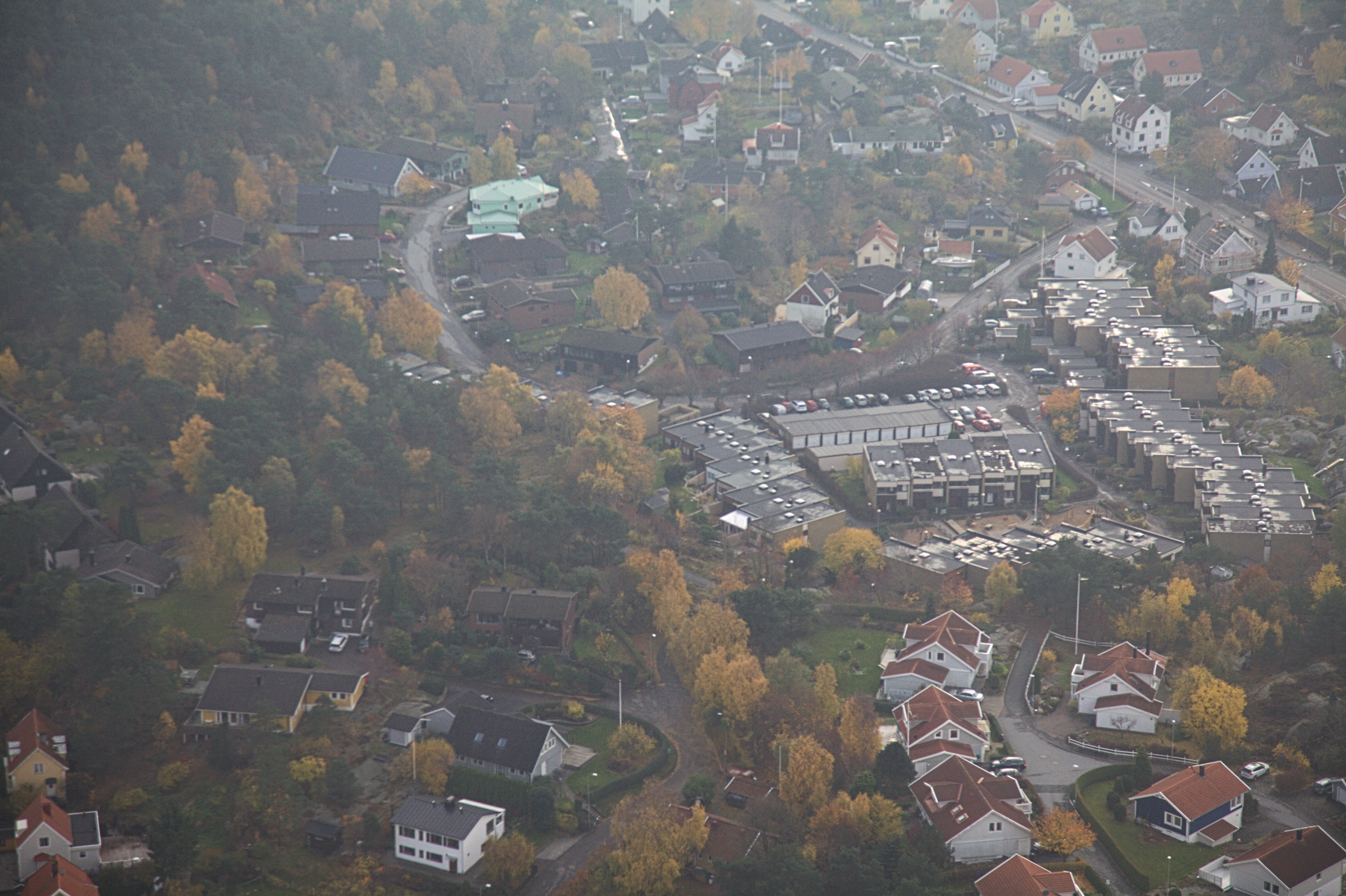 Photo taken on a helicopter over Gothenburg